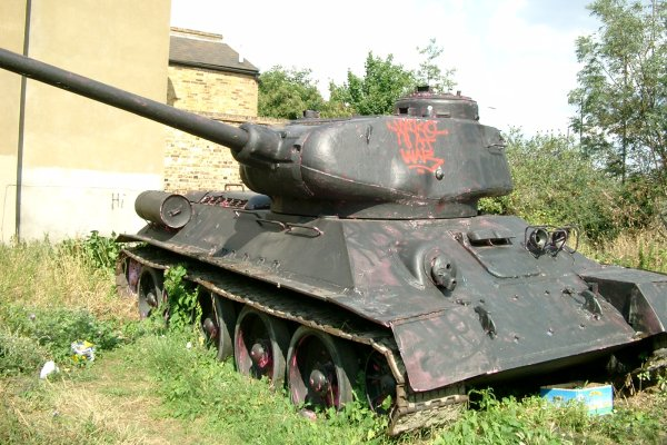 A photo of the T-34 on Mandela Way, Bermondsey, London